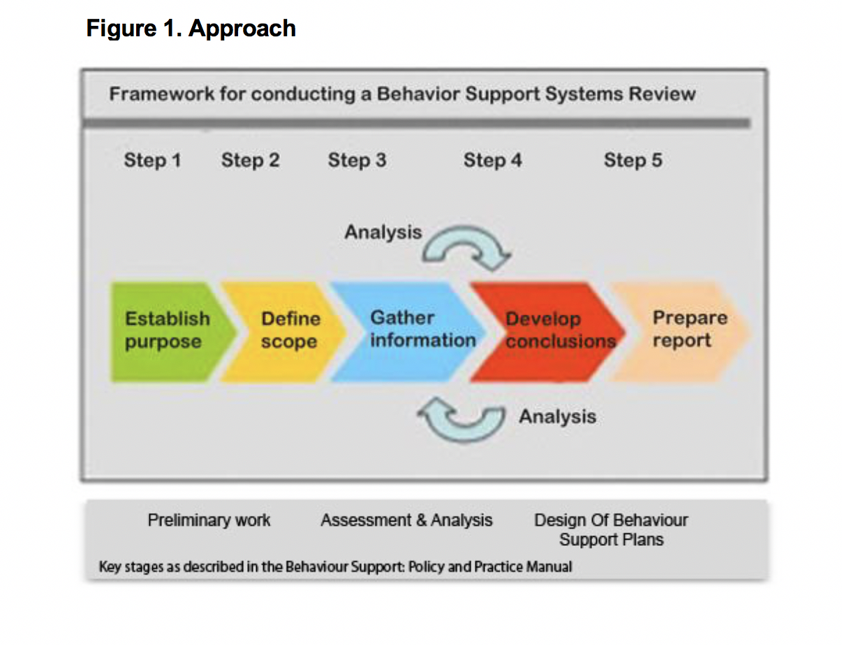 This practice guide proposes the use of five key Steps for undertaking this work as illustrated in Figure 1 below